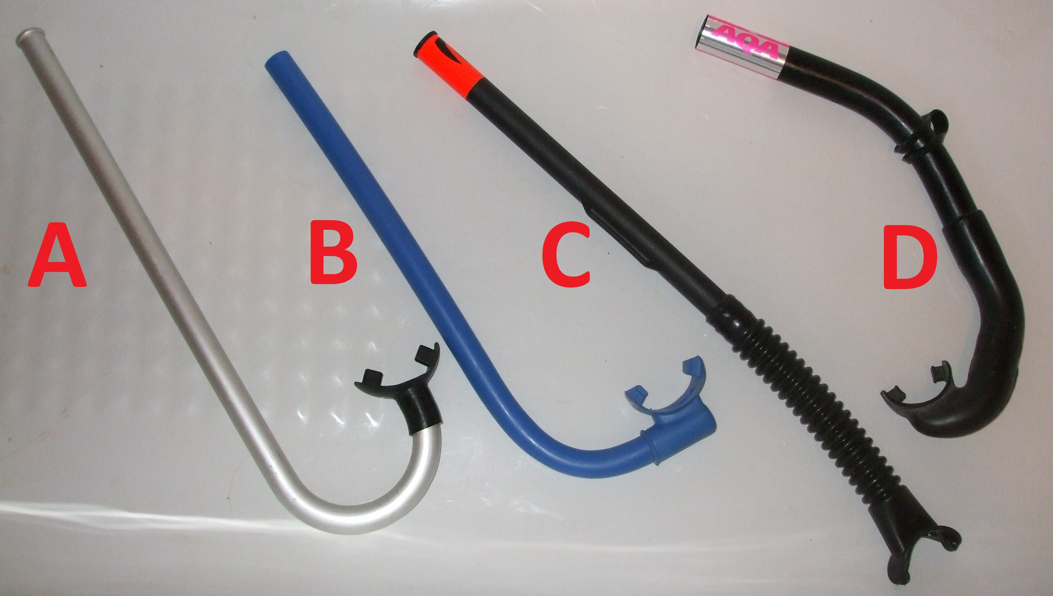 Four basic side-mounted snorkel shapes are illustrated. Shape A: J-shaped snorkel. Shape B: L-shaped snorkel. Shape C: Flex-hose snorkel. Shape D: Contoured snorkel.